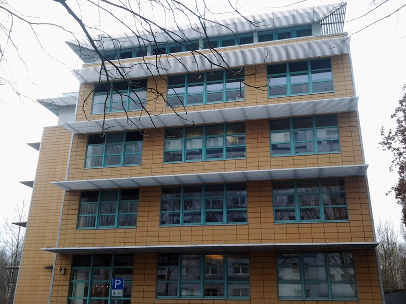 Administrative building of the housing association Marzahner Tor